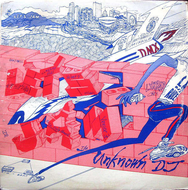 Album cover of The Unknown DJ 12-inch single "Let's Jam". The record was released in 1985 on Techno Hop Records.